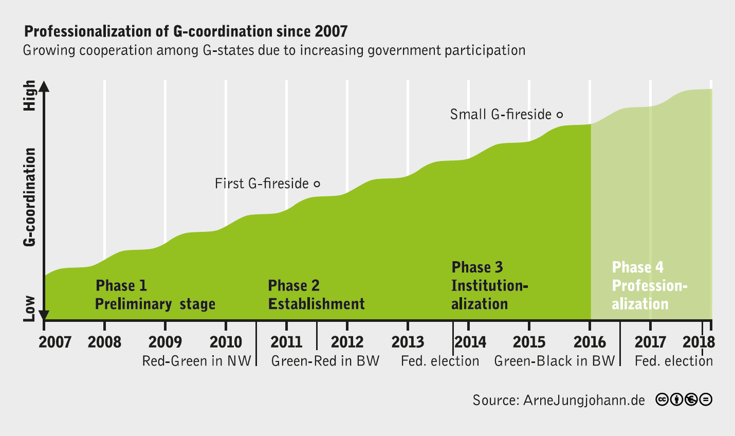 The graphic explains four phases of an evolving level of coordination within the G-coordination of the Green Party in Germany.